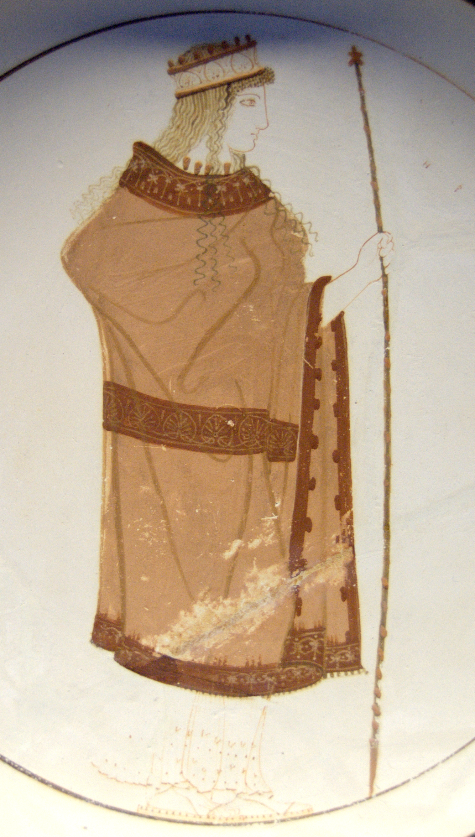 Hera (according to inscription). Tondo of an Attic white-ground kylix, ca. 470 BC. From Vulci.